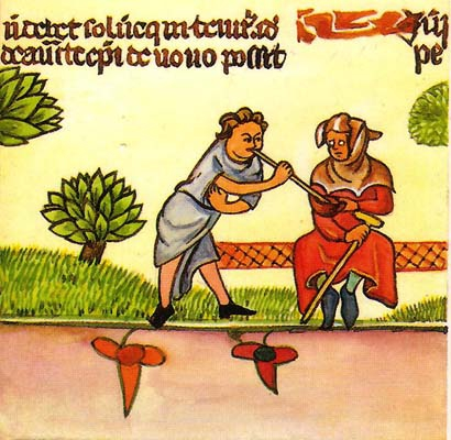 Miniature showing a blind's Lazarillo in a codex from 14th Century in wich Gregory IX's Decretales are copied.